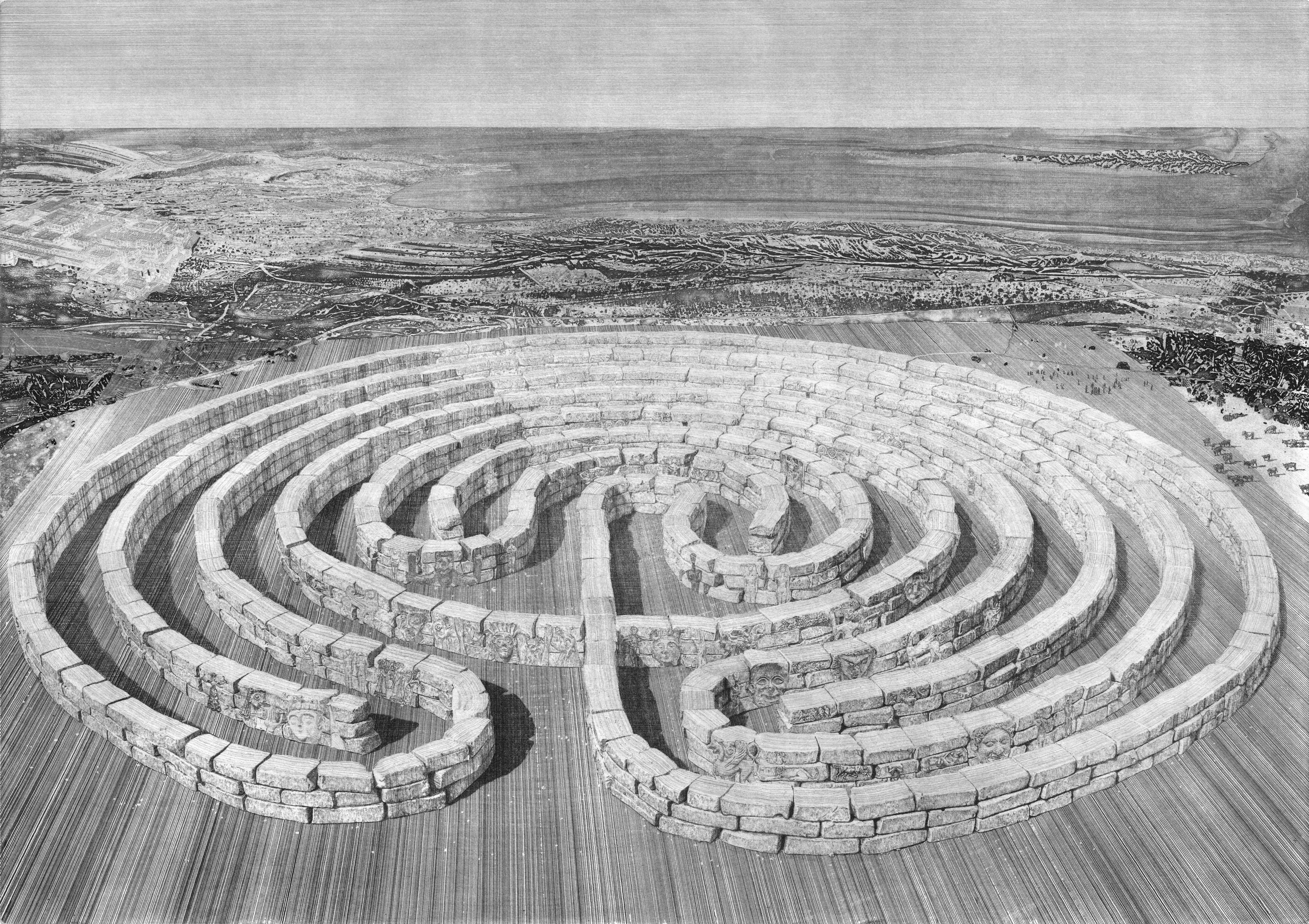 Labyrinth XXX, etching, aquatint, soft-ground etching.